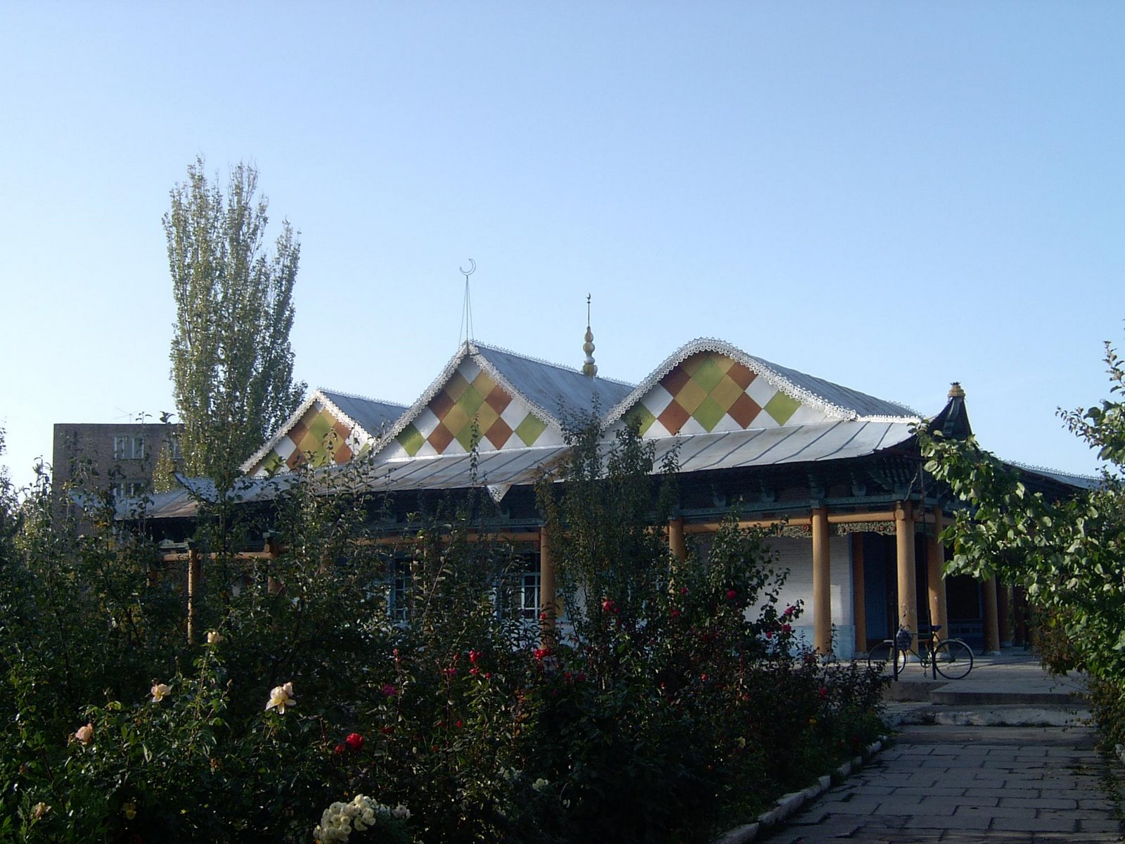 The exterior of the Dungan Mosque in Karakol, Kyrgyzstan